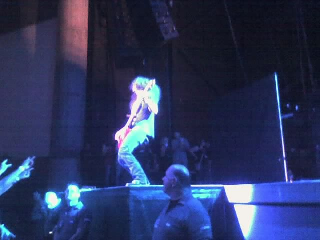 Mike Inez, bassist for Alice in Chains, playing in Tampa, Florida.